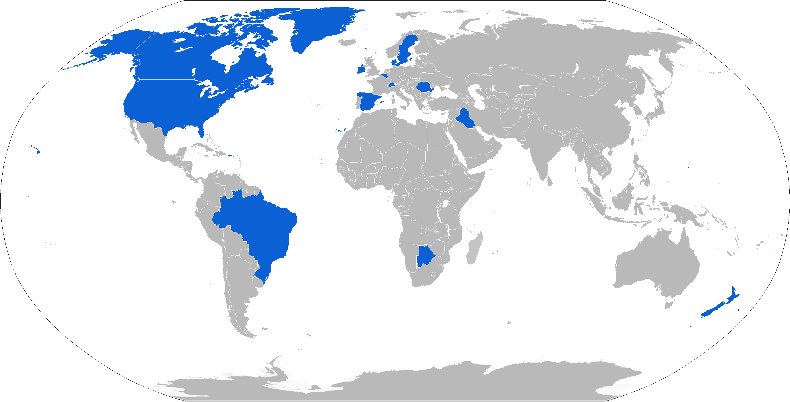 Map of Pirahna 3 operators in blue